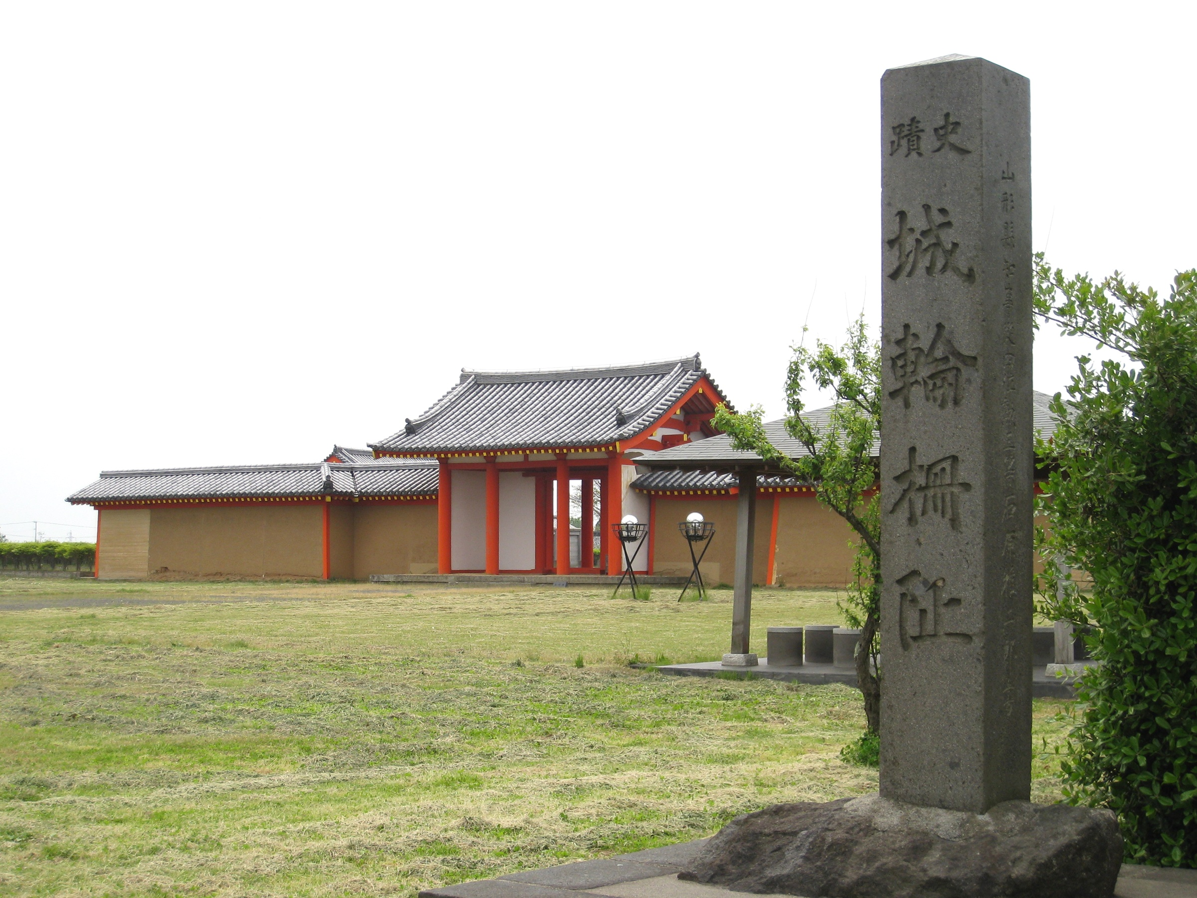 East Gate of Kinowanosaku is old castle ruins in Sakata City, Yamagata Prefecture, this photo taken in May 8, 2008